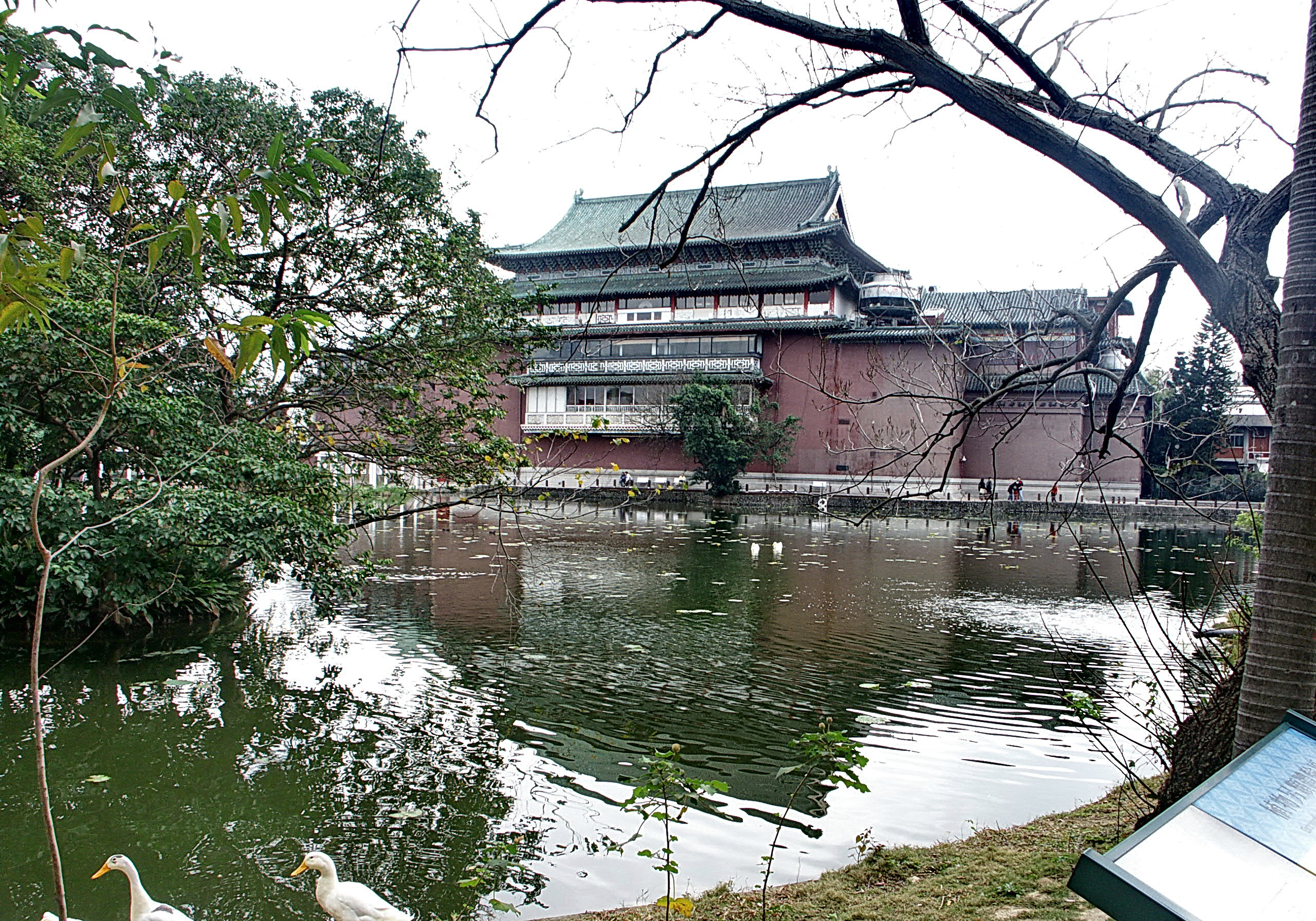 國立歷史博物館 National Museum of History